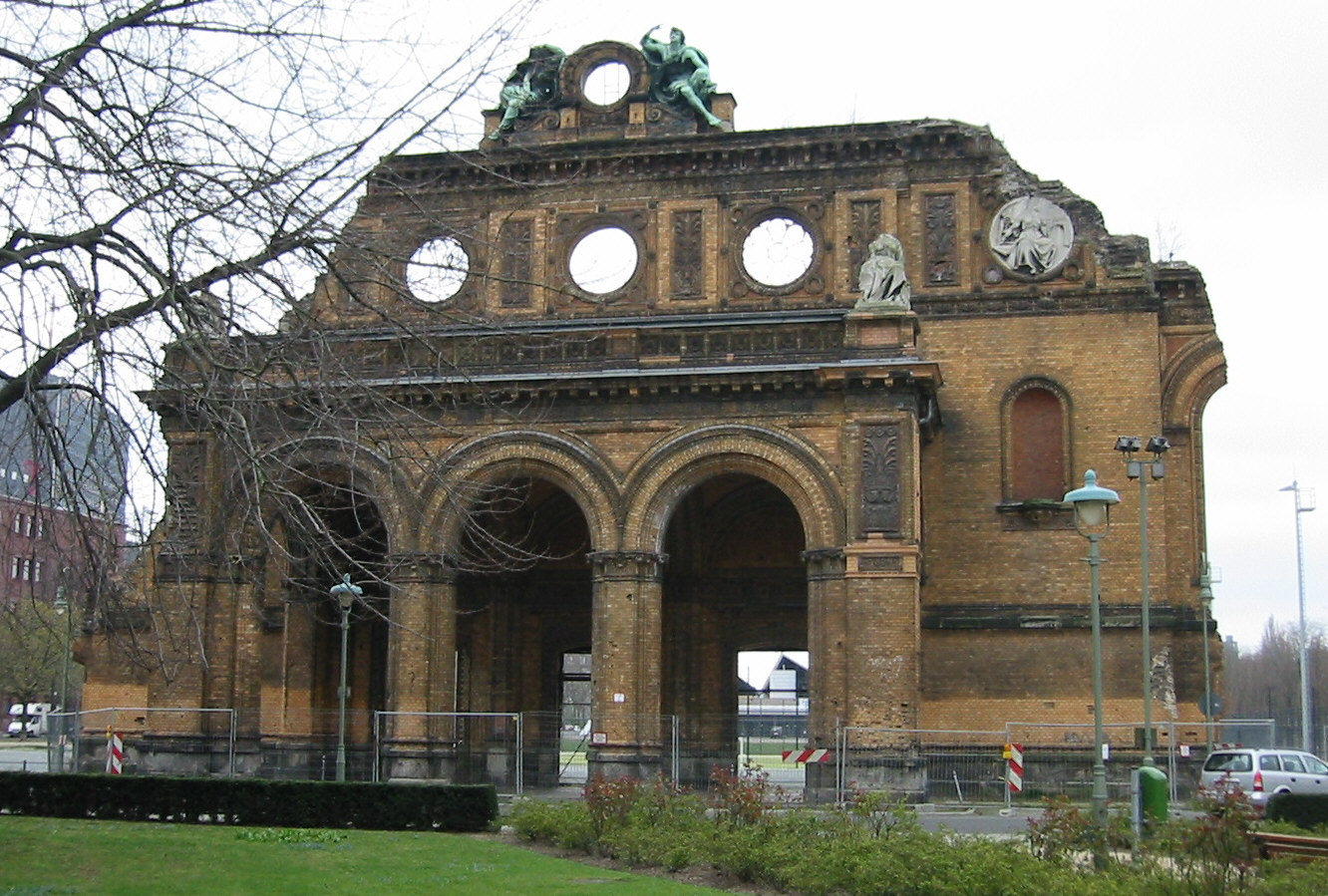 The last surviving section of the façade of the second (1880-1961) Anhalter Bahnhof (railway station) in Berlin